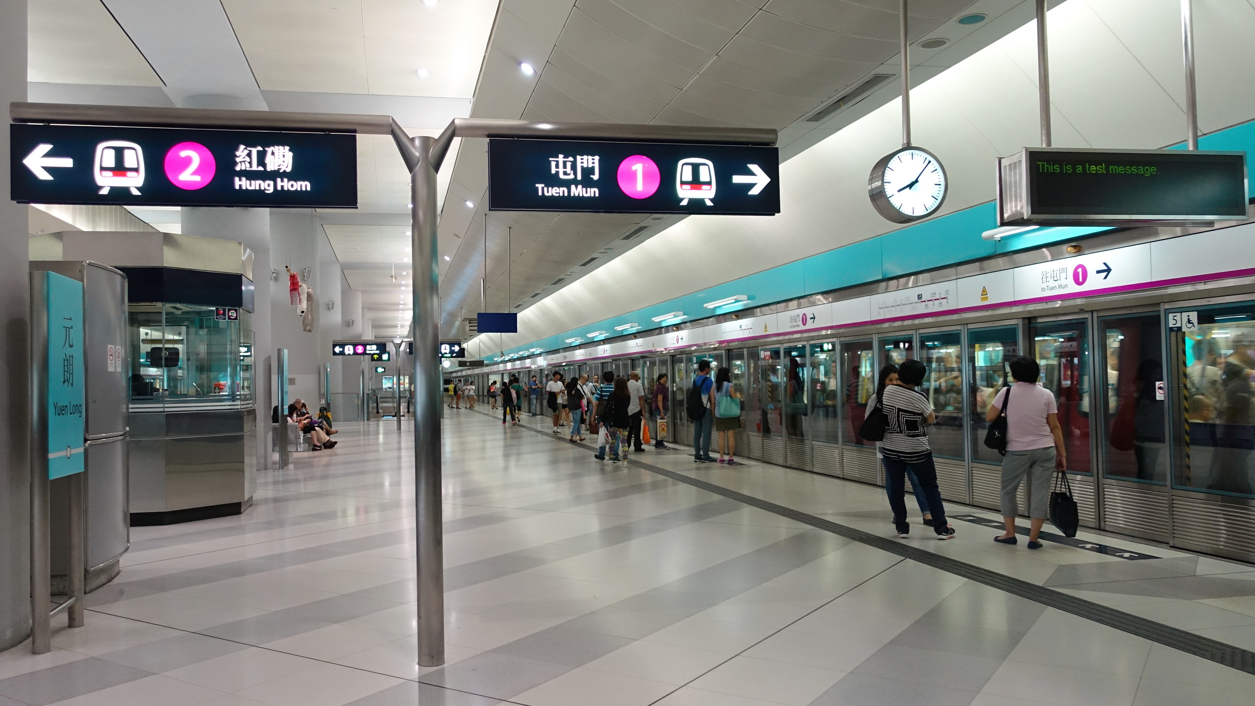 Platform 1, Yuen Long Station, New Territories, Hong Kong.